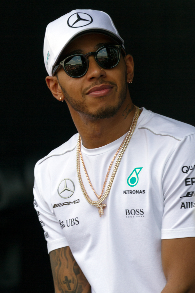 Formula One 2017 Rd.15 Malaysian GP: Lewis Hamilton (Mercedes) at the fan meeting